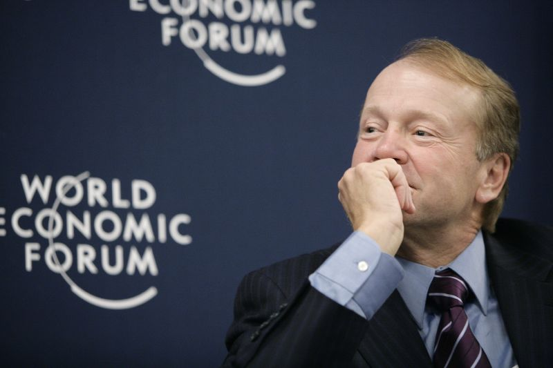 John T. Chambers, Chairman and Chief Executive Officer, Cisco Systems, USA, captured during the session Convergence on the Move at the Annual Meeting 2007 of the World Economic Forum in Davos, Switzerland.